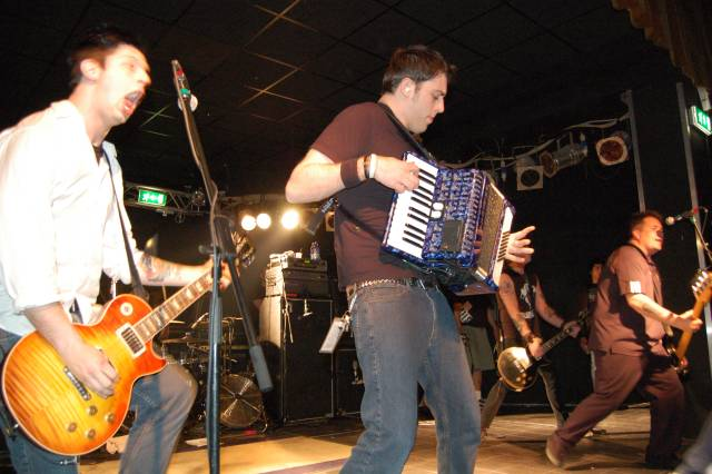 photo from flick